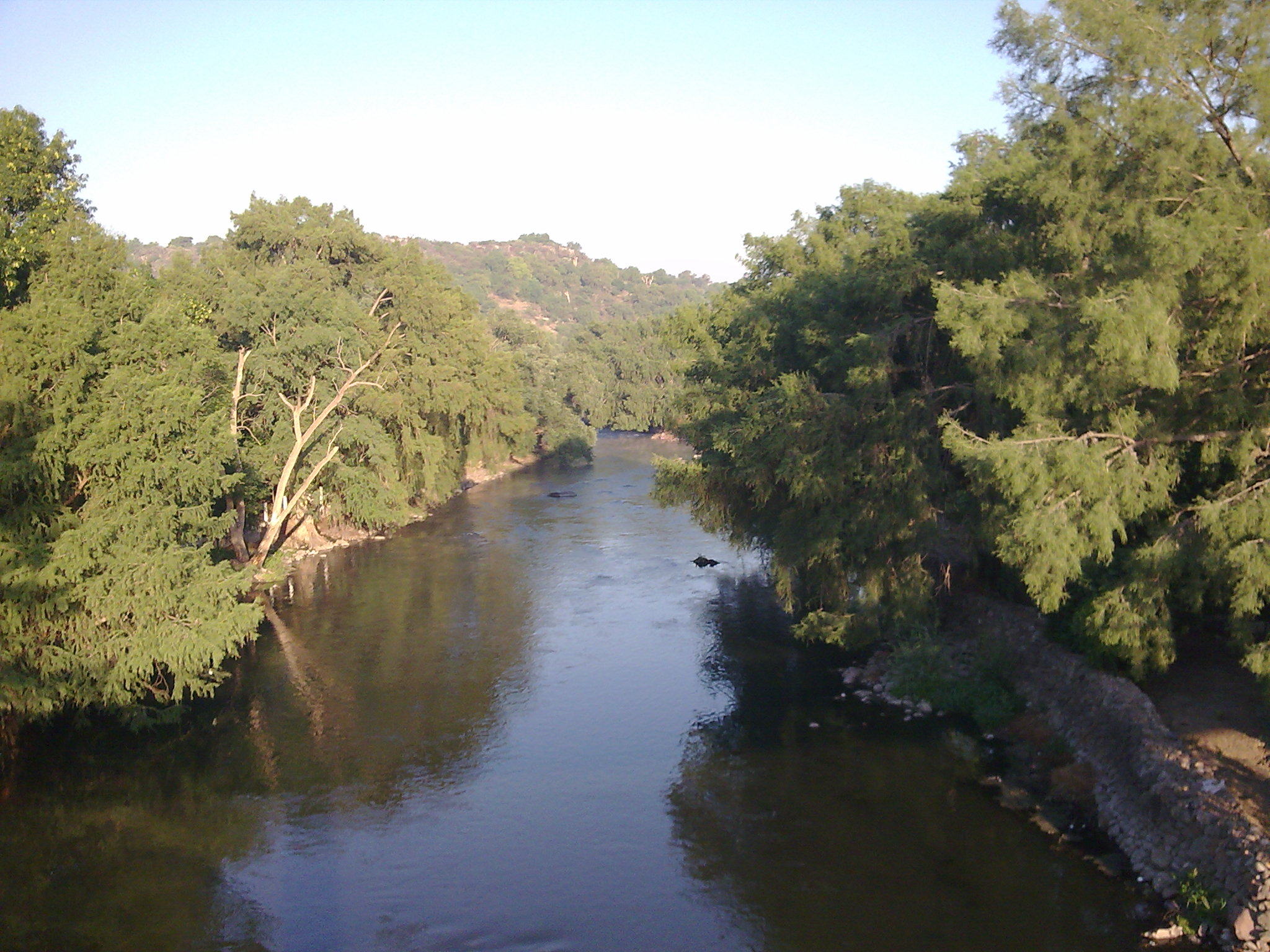 Tula River on May 3rd 2010